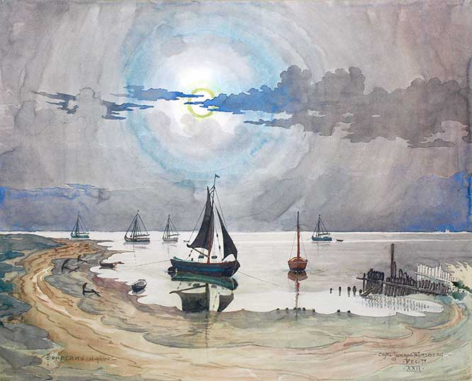 Painting of Sønderho Harbour on the Danish island of Fanø by the Swedish painter Carl Johan Forsberg. Held by Fanø Kunstmuseum